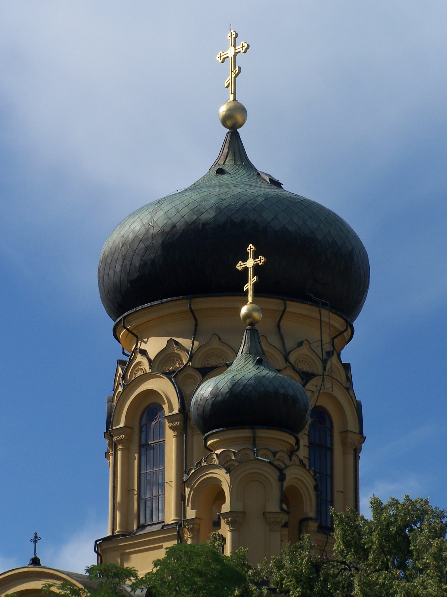 Metropolitan Orthodox Cathedral of St. Mary Magdalene